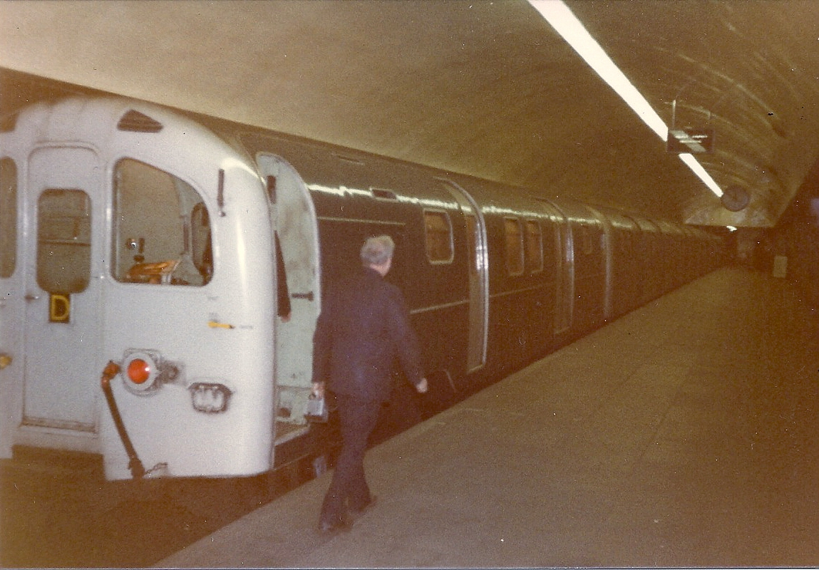 British Rail Class 487 on the Waterloo and City line at Bank Station